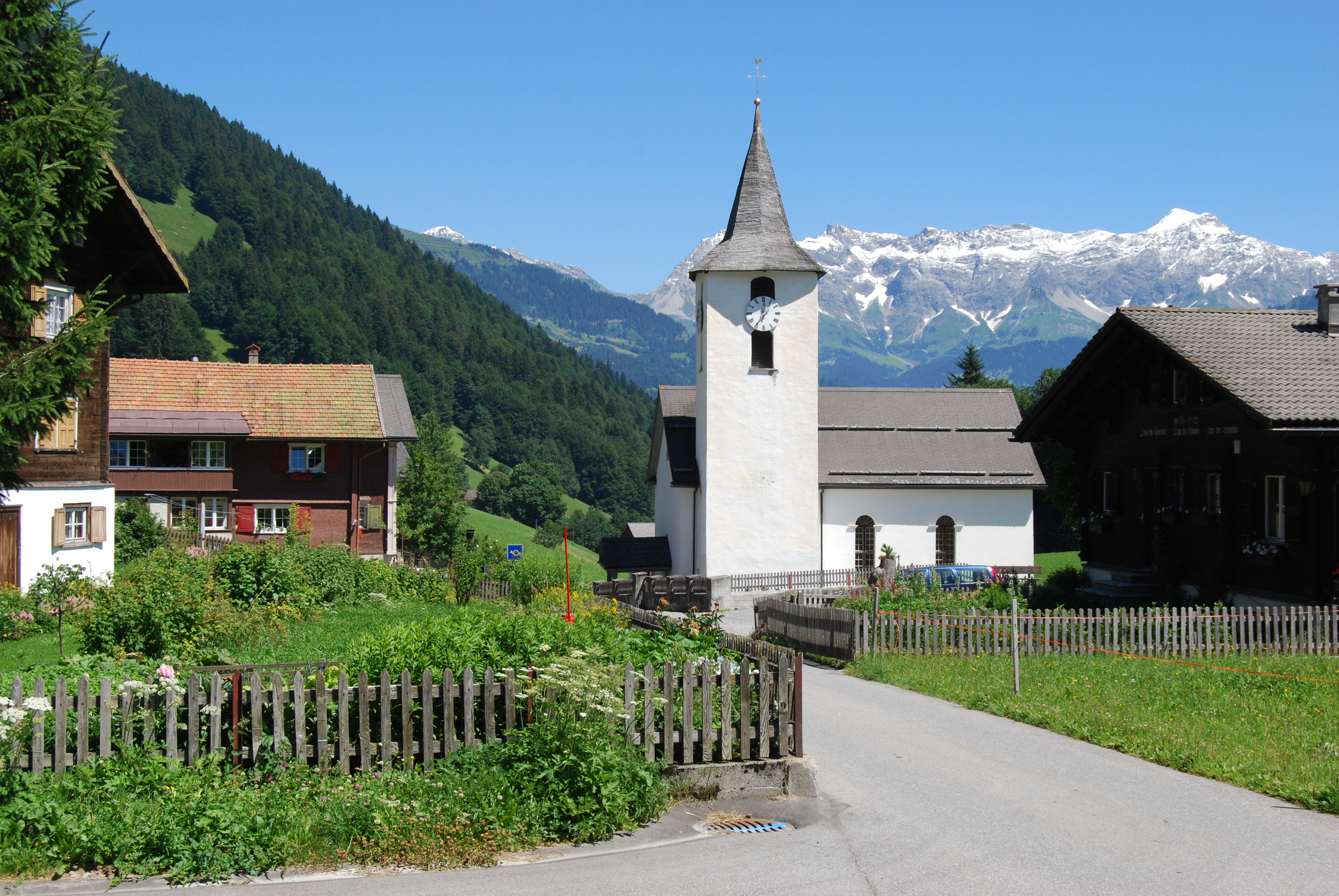 View on Valzeina with its church and former post office.